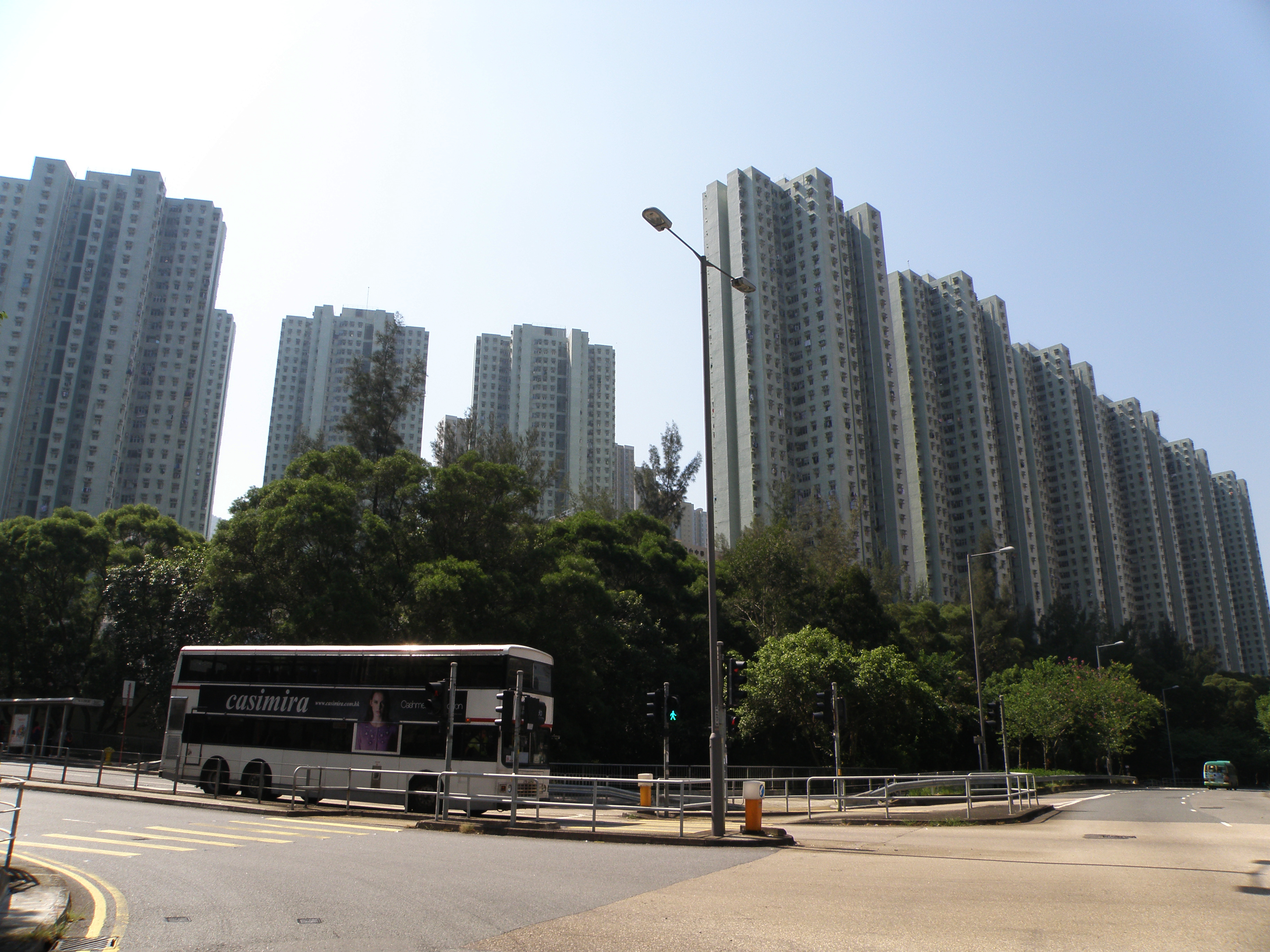 Saddle Ridge Garden in Ma On Shan, Hong Kong.